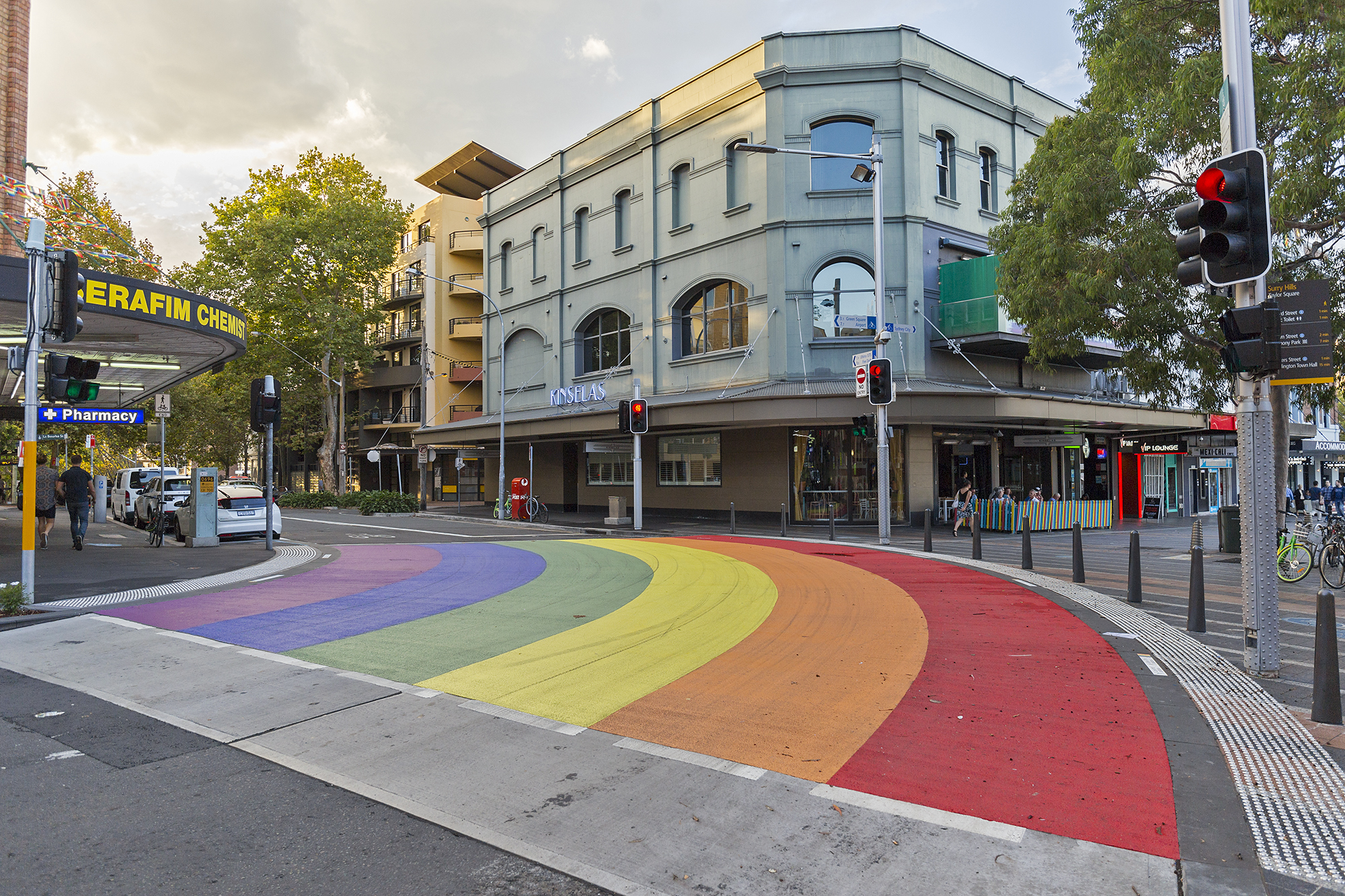 Rainbow Crossing on Campbell Street in Surry Hills